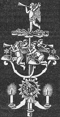 Original version of Adrian & Stock's patented angel chime.